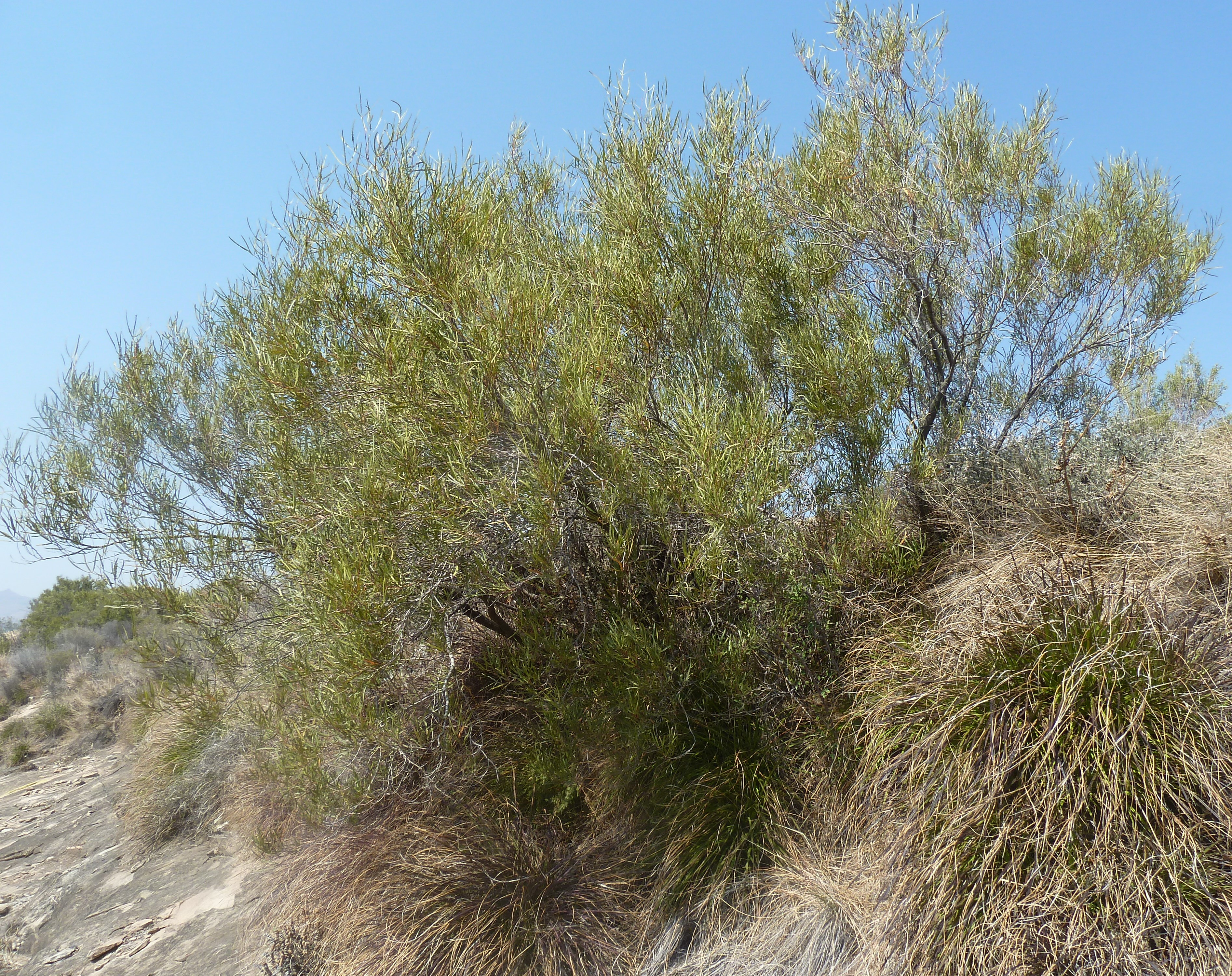 Habit of a Broom karree at Clarens, eastern Free State, South Africa